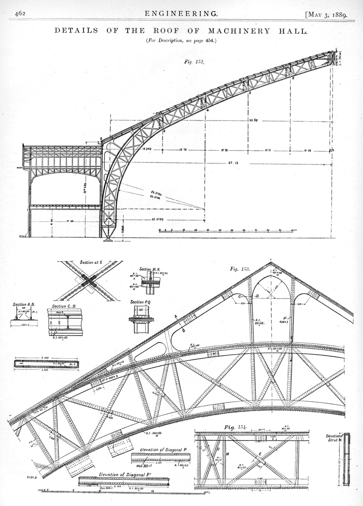 Construction details, from Engineering, The Paris Exhibition, May 3, 1889 (Vol. XLVII)